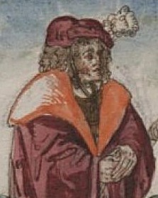 Berthold IV of Merania